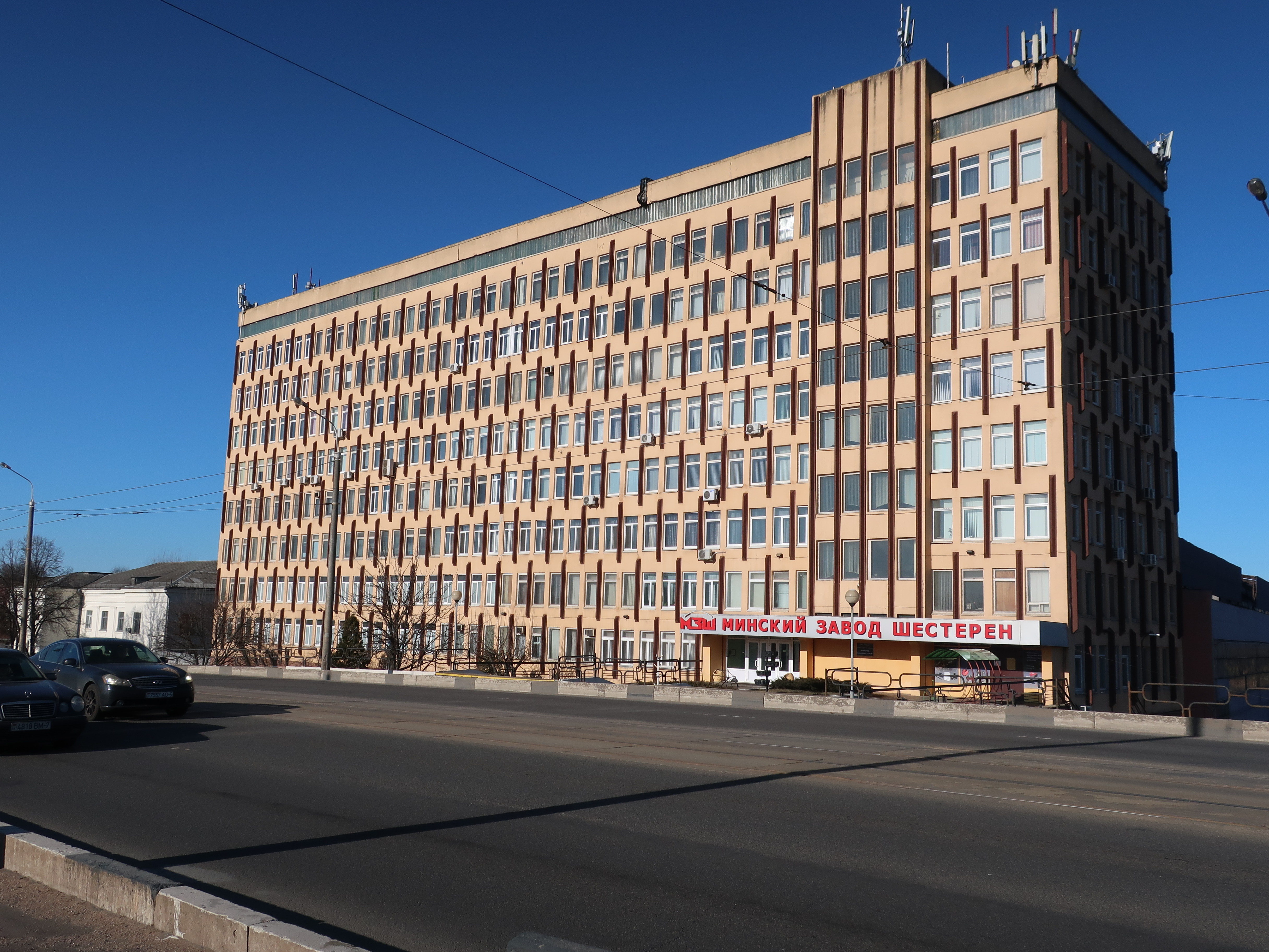 Factory "Minsk Gear Works" (M.Z.Sh.)